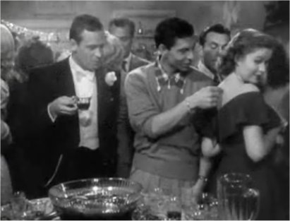 Screenshot taken by me (Icea) from the trailer to the movie Sunset Blvd.